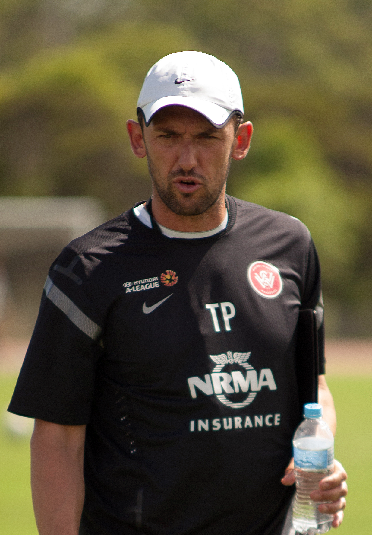 Picture of Tony Popovic, managing the Western Sydney Wanderers